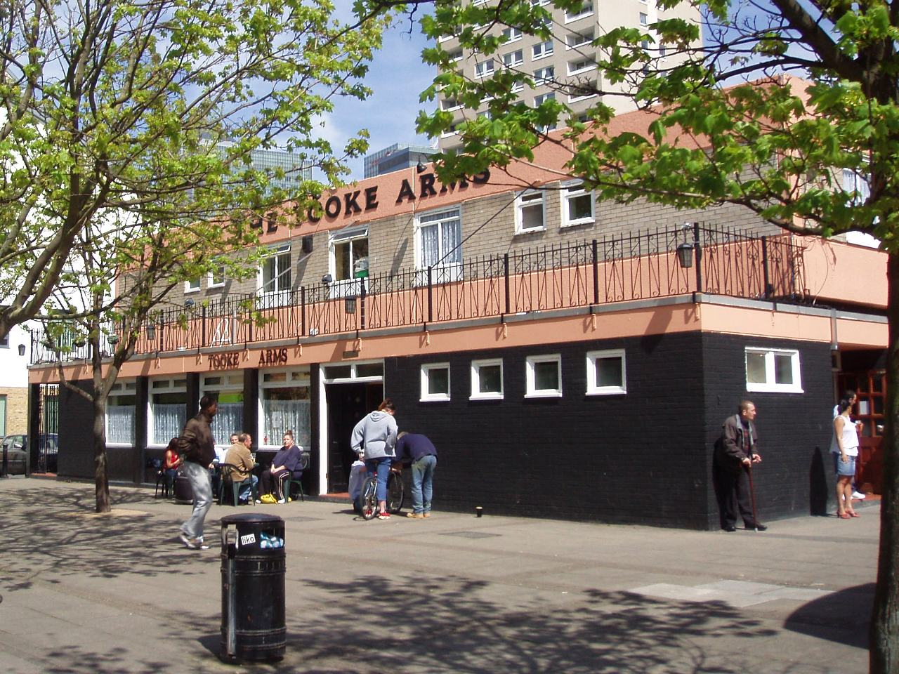 A locals' pub which has been around a while, but rebuilt in the 70s in a not particularly appealing estate-pub style. Address: 165 Westferry Road (formerly Ferry Road West). Owner: Watney Combe Reid (former). Links: Dead Pubs (history)